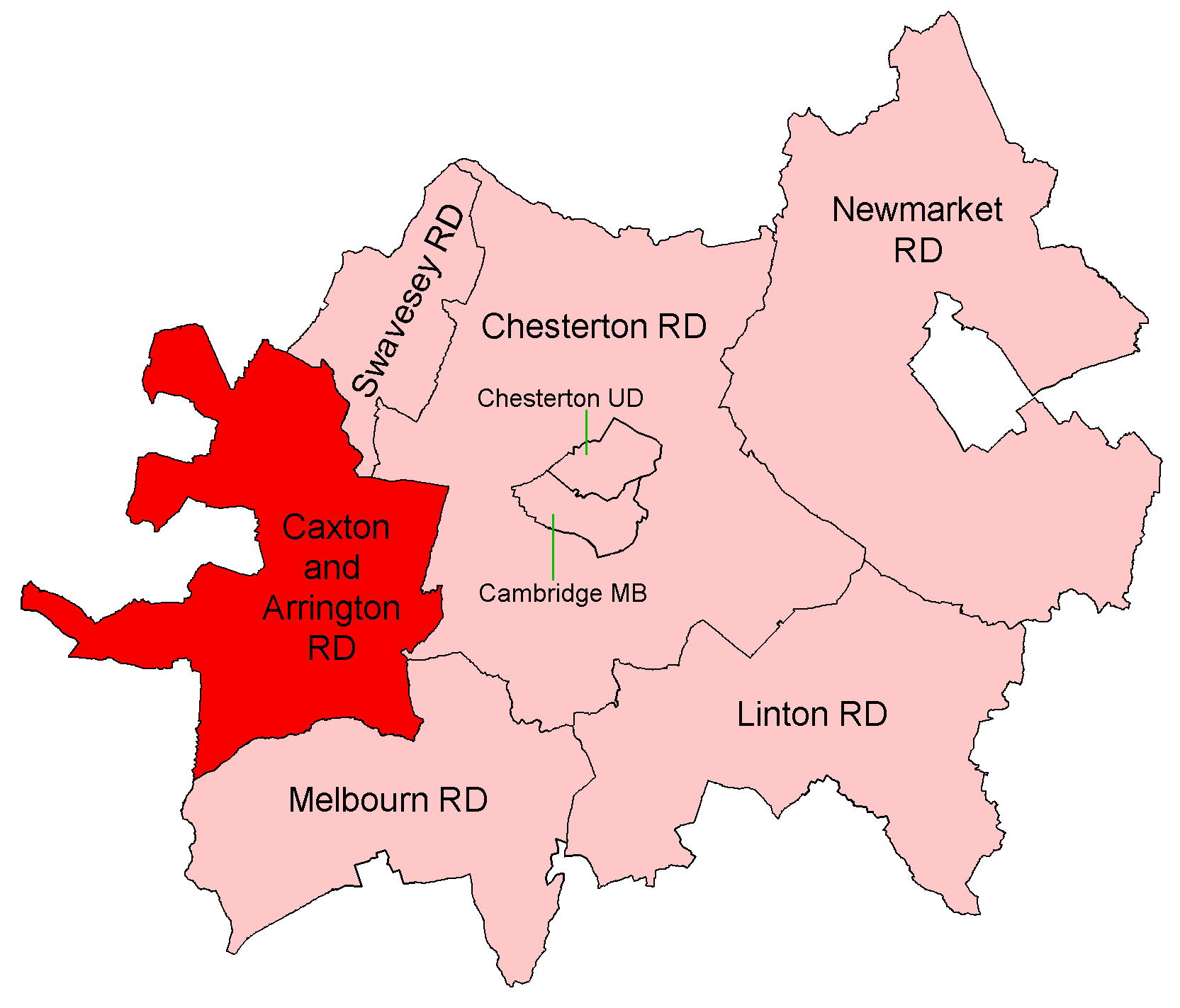 Caxton and Arrington Rural District, shown within the administrative county of the Cambridgeshire. Cambridge MB was enlarged, and Chesterton UD abolished, 1912. Other boundaries shown are correct from 1894 to 1934.